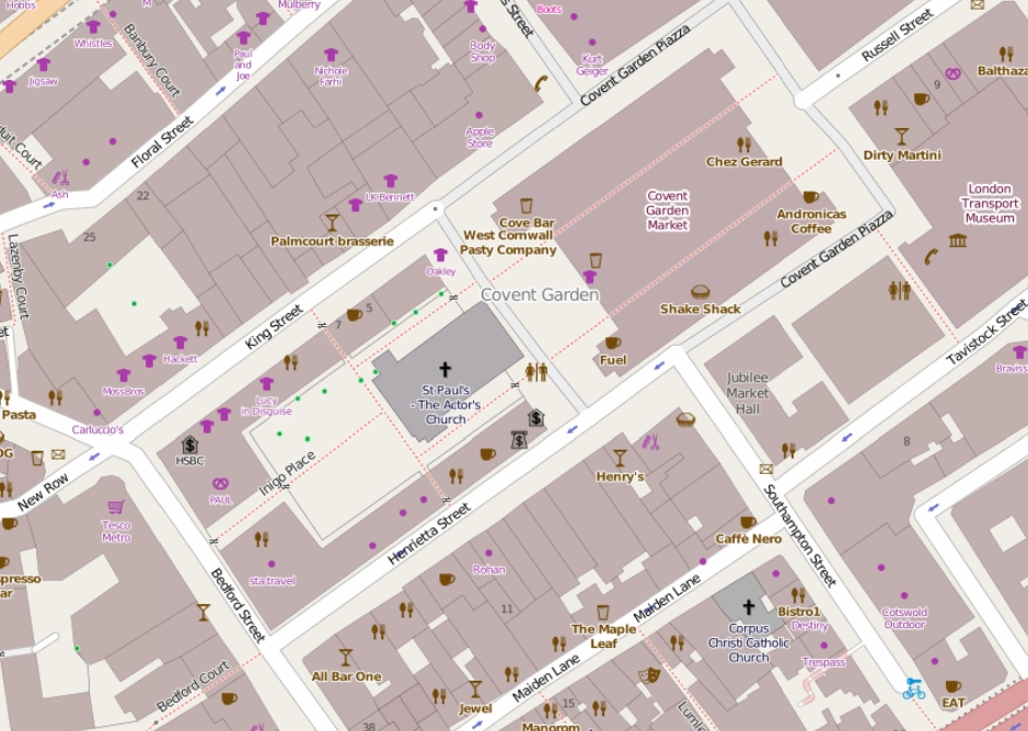 Short, commercial, Henrietta Street, King Street with the Covent Garden Piazza form a hub of takeaways, cafés, boutiques and restaurants with one-small-block-away opposing Maiden Lane and Floral Street in the heart of the Covent Garden district, in turn the most commercial hub of WC2, Central London which are all linked by Southampton Street and James Street respectively. St Paul's Church, Inigo Place (Inigo James Garden, named after the architect noted for churches, landscapes with Capability Brown and mansions), The Royal Opera House/Royal Ballet as well as the central site of the London Transport Museum face the covered two/three-tier "market house" plaza forum. In the west Bedford Street leads off to the south-east like Southampton Street to the Strand. In the east Russell Street (the Duke of Bedford, seated at Woburn Abbey in Bedfordshire is a Russell) runs a few metres east, connecting Bow Street. Some of the land here is still let by the family of His Grace, the Duke of Bedford. By the steps of this church Category:My Fair Lady is set: young Eliza Doolittle who needs to sell her flowers, which have just been knocked over by a young man in the rain, to make a living and who accepts an offer by a linguistic professor of lessons in being a lady so she can start her own flower shop. Many versions of this story, based on Galathea in Pigmalion and Galathea see her shop open successfully in Covent Garden and marrying the young workman who bumped into her rather than any of the upper class as the Pigmalion character out of self-interest intends.